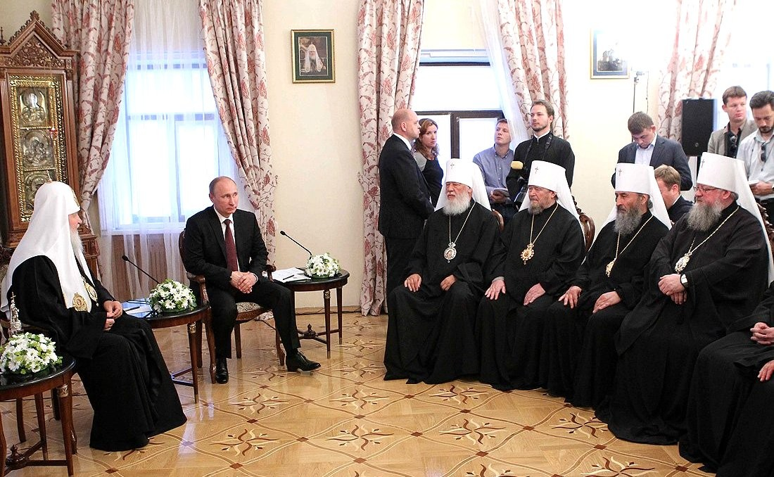 Patriarch Kirill of Moscow and president Vladimir Putin meets with metropolitans Agathangel (Savvin), Lazarus (Shvets), Onuphrius (Berezovsky) and Hilarion (Shukalo)